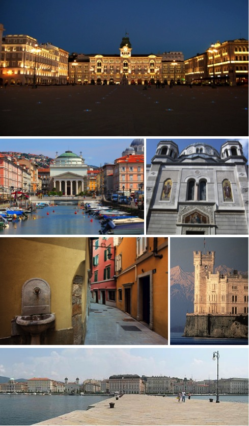 A collage of the main sights of Trieste, Italy